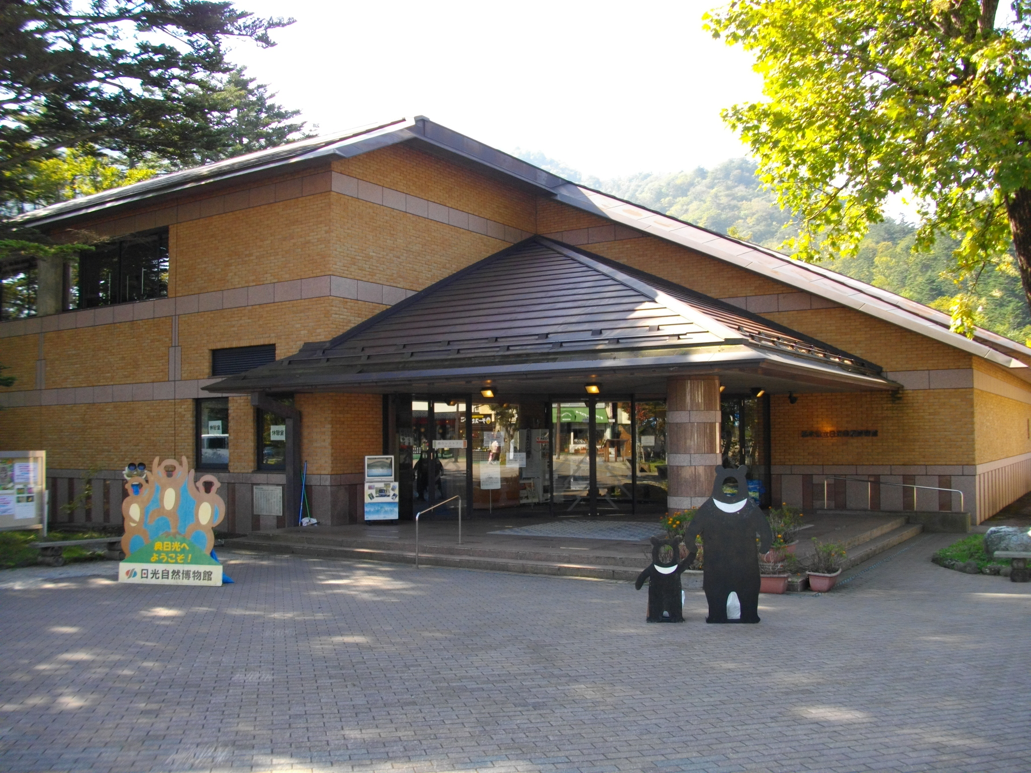 Nikko Natural Science Museum